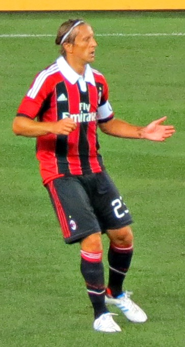 Taken by goatling with a Canon PowerShot SX40 HS camera. Massimo Ambrosini of A.C. Milan in action for A.C. Milan against Real Madrid in the 2012 World Football Challenge.